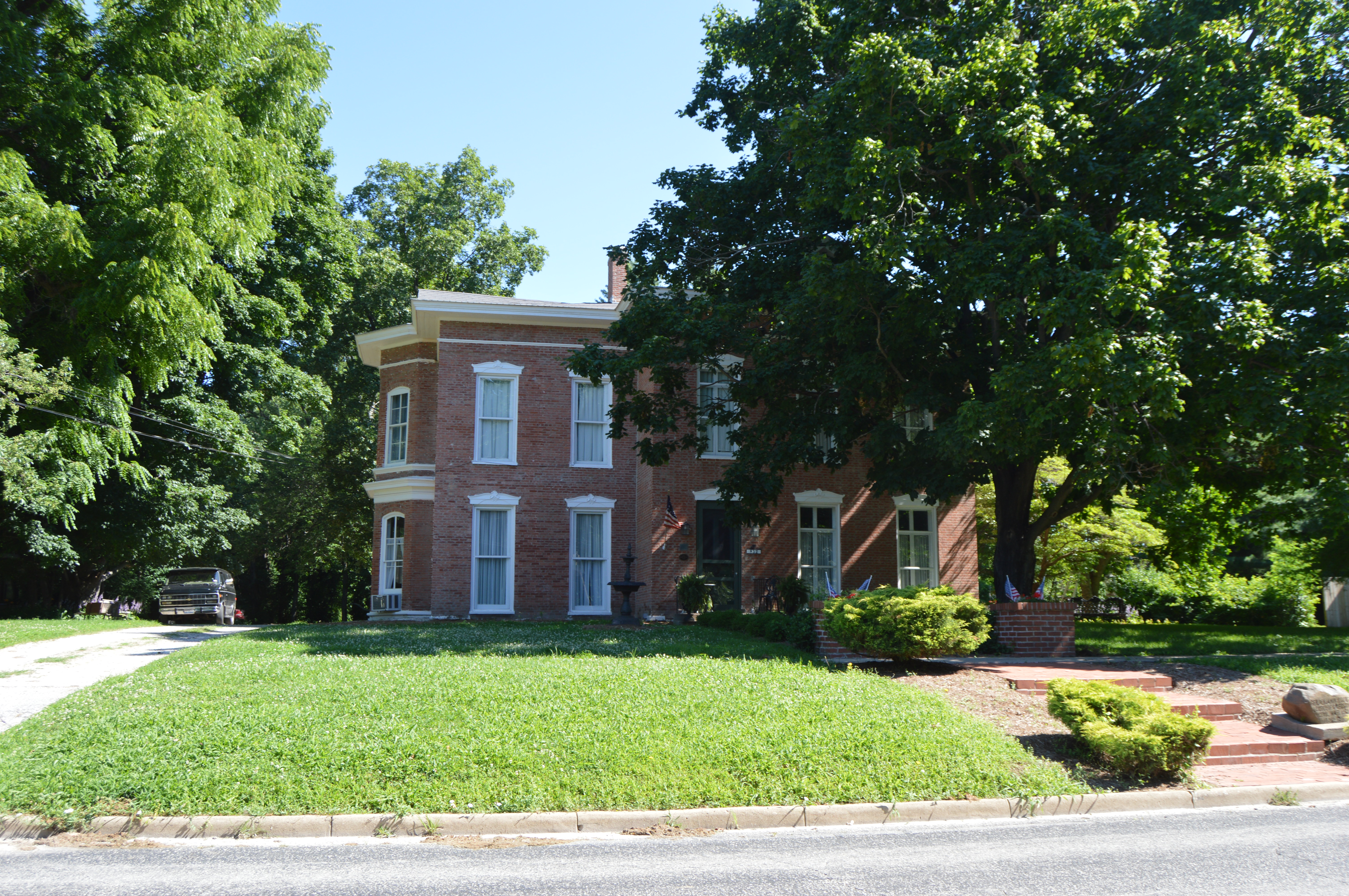 Front of the Benjamin Henry Grierson House, located at 852 E. State Street in Jacksonville, Illinois, United States. Built in 1851, it is listed on the National Register of Historic Places.